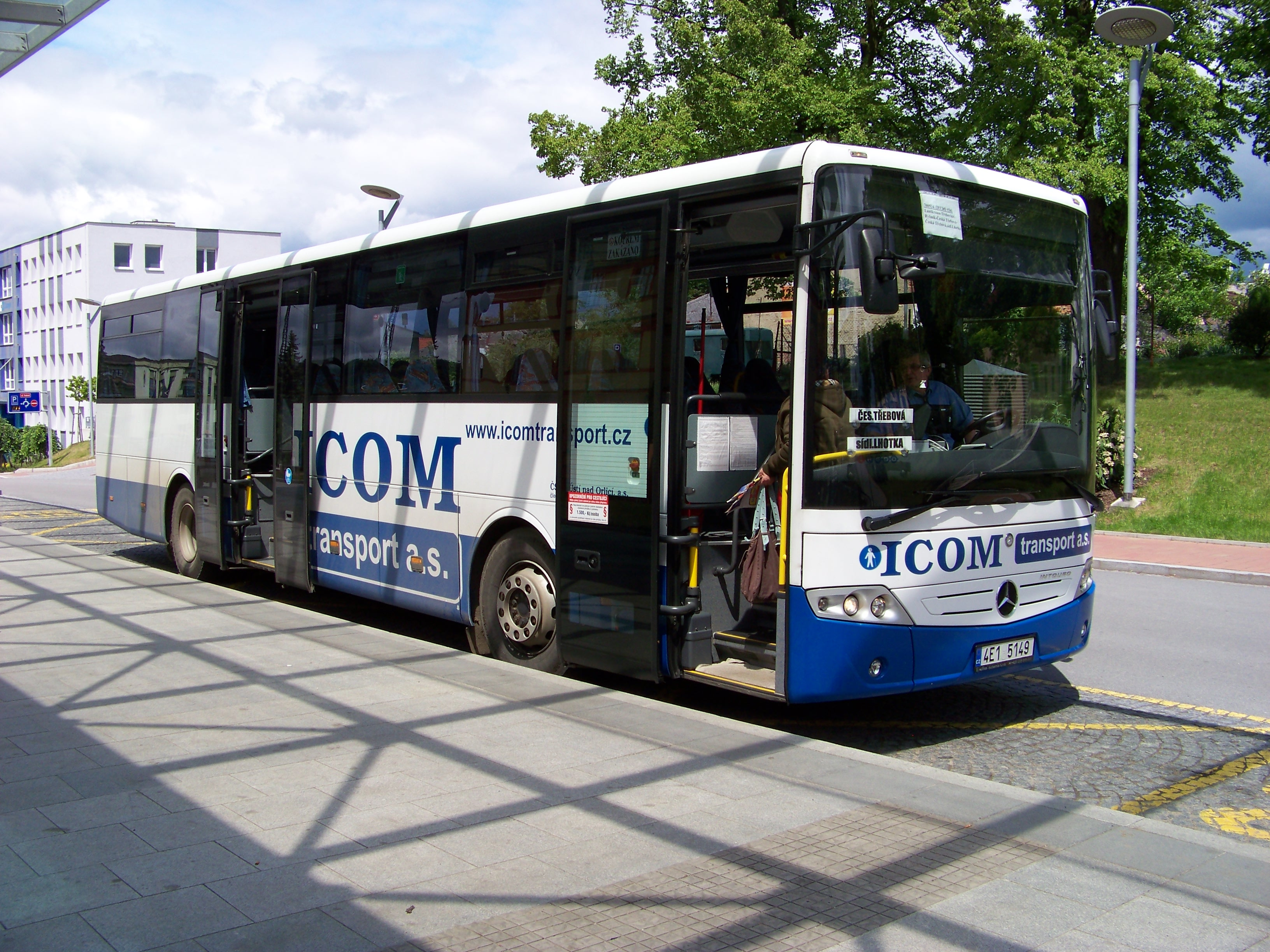 Česká Třebová, Ústí nad Orlicí District, Pardubice Region. A train station, a bus. - OpenStreetMap(Info)